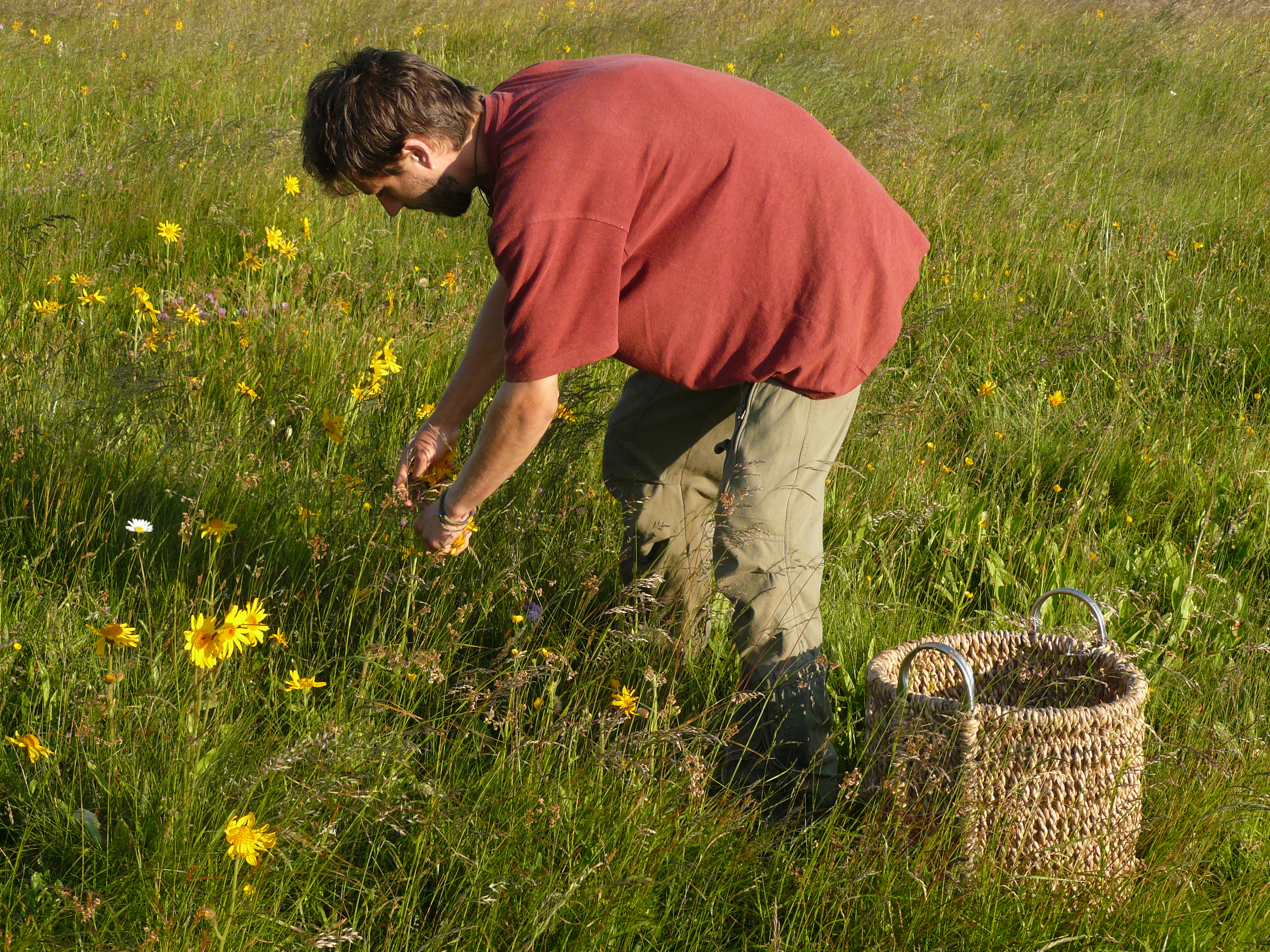 Picking of heads of arnica montana in Markstein, France